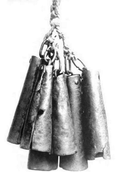 Iron bells (tettaku), a.k.a. the Sanagi-suzu